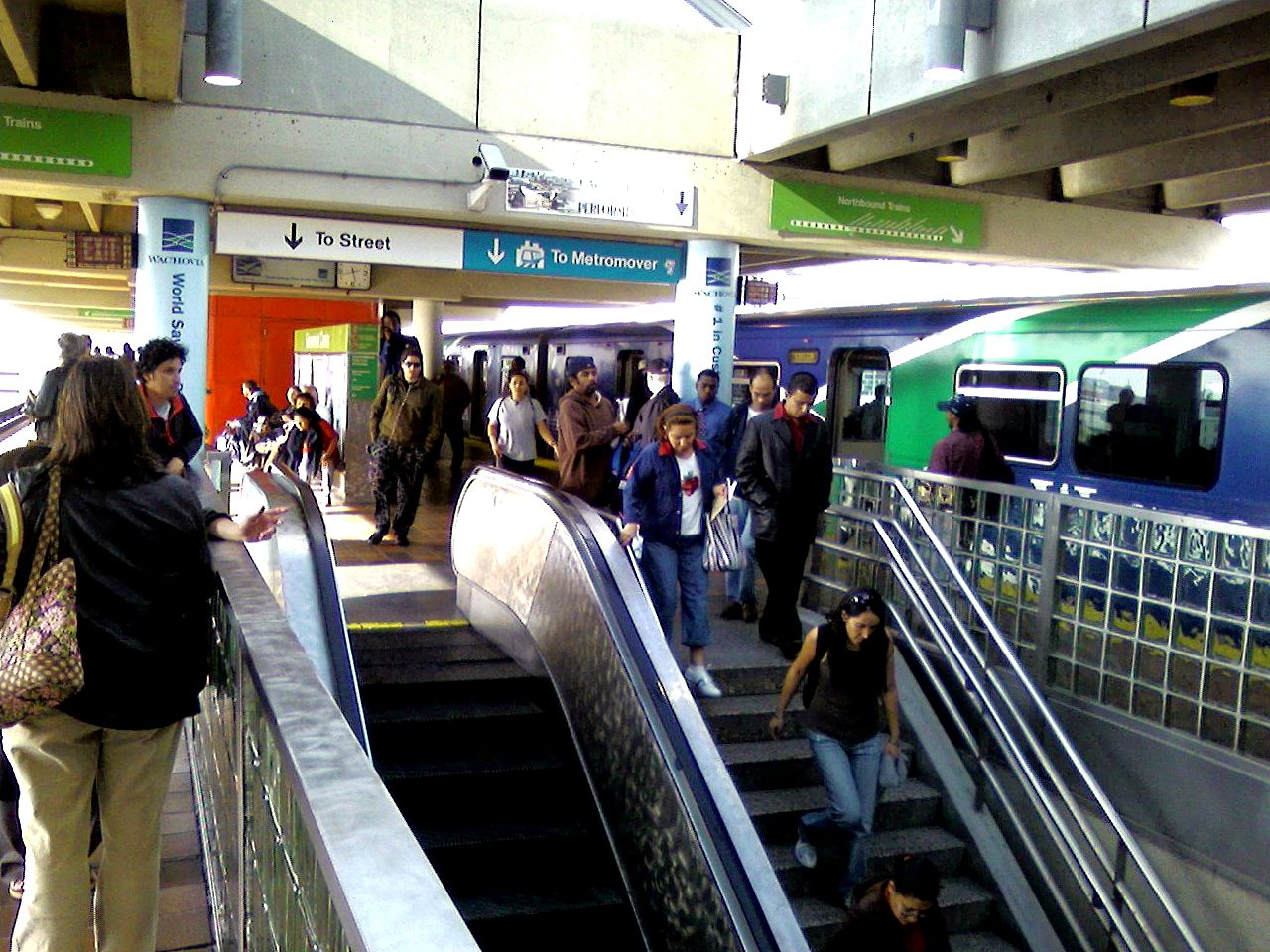 Government Center station at rush hour, circa 2008